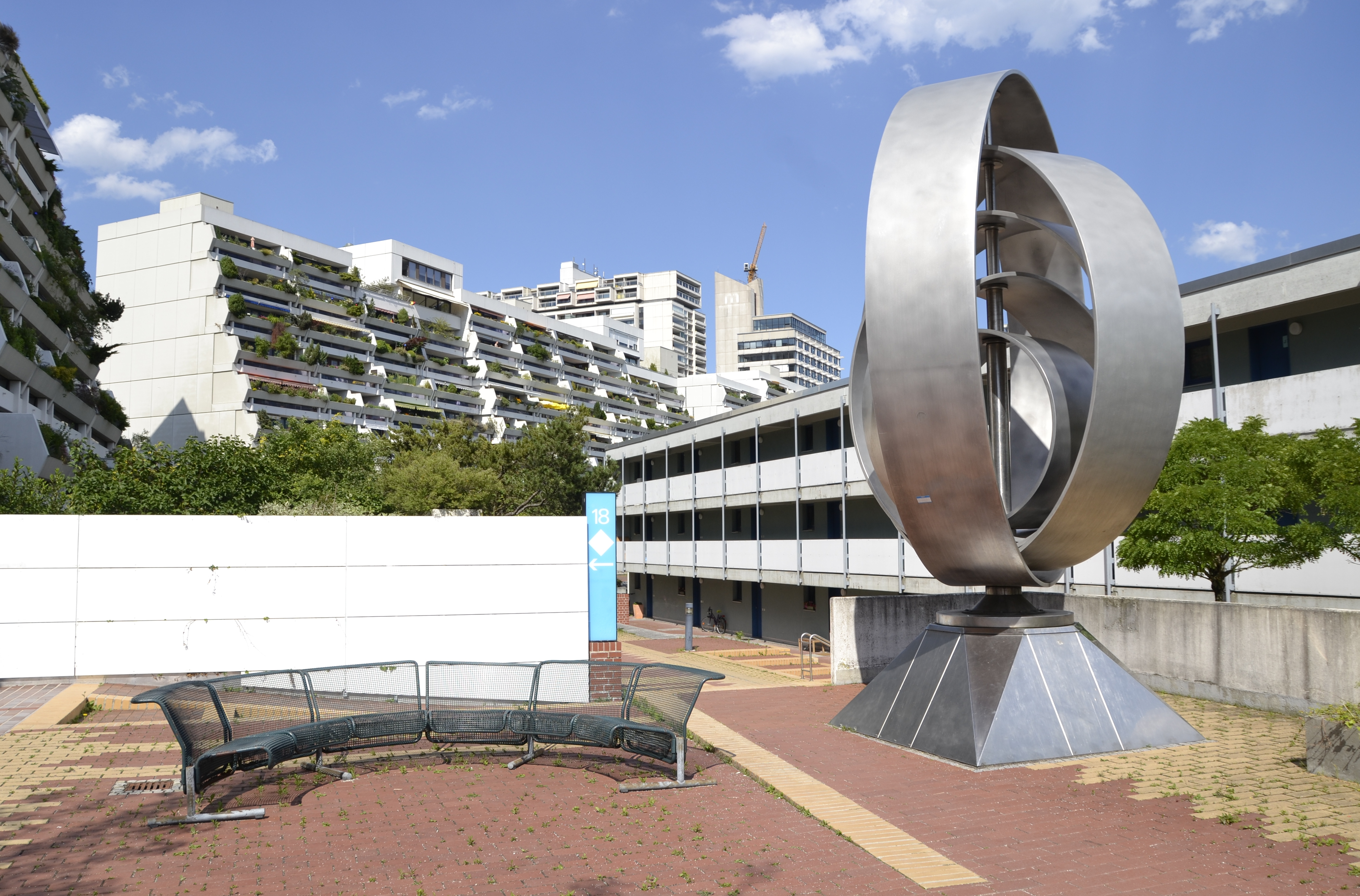 In the Olympic Village in Munich in June 2012.